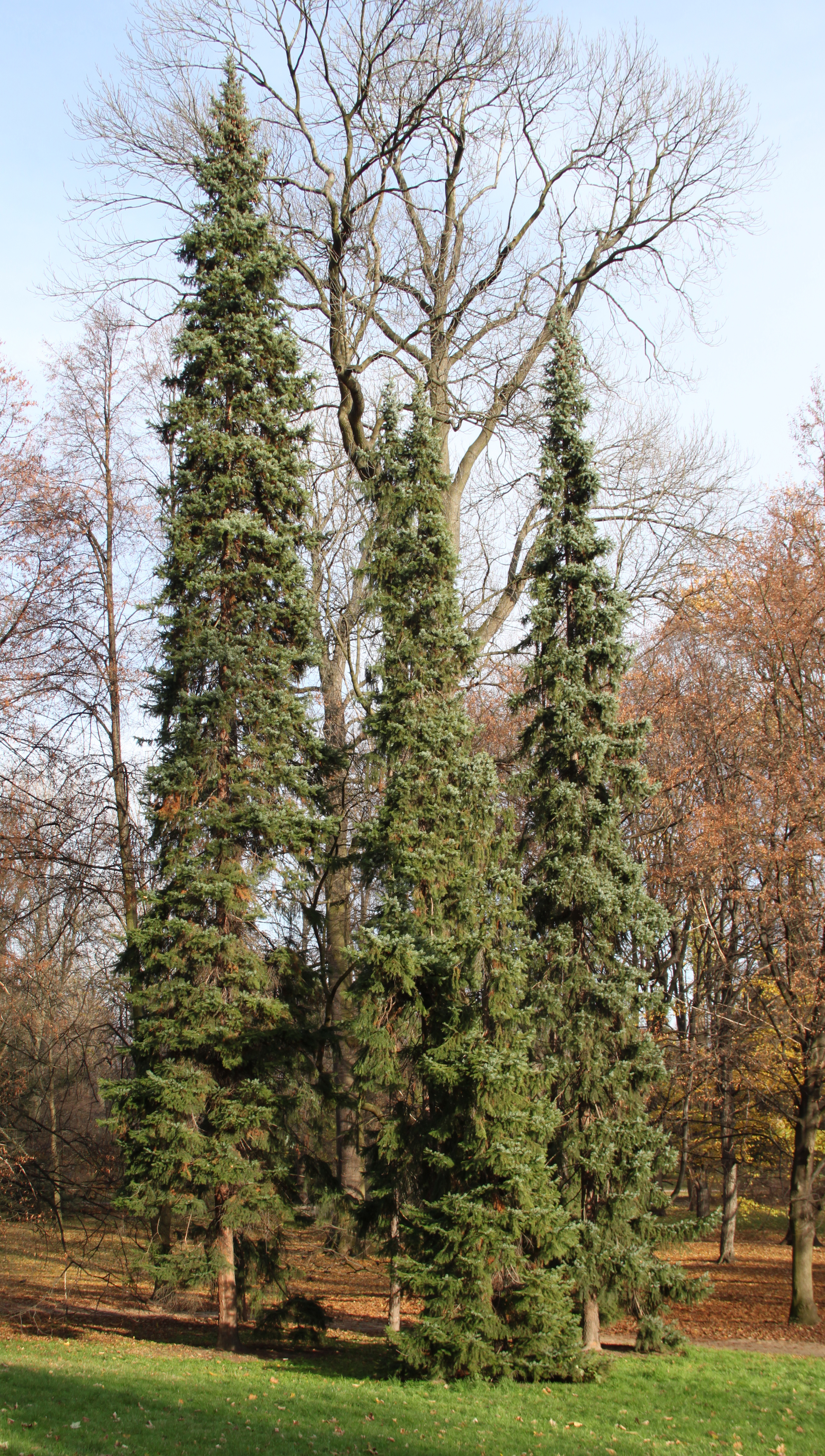 Picea omorika in Łazienki Królewskie in Warsaw, Poland.